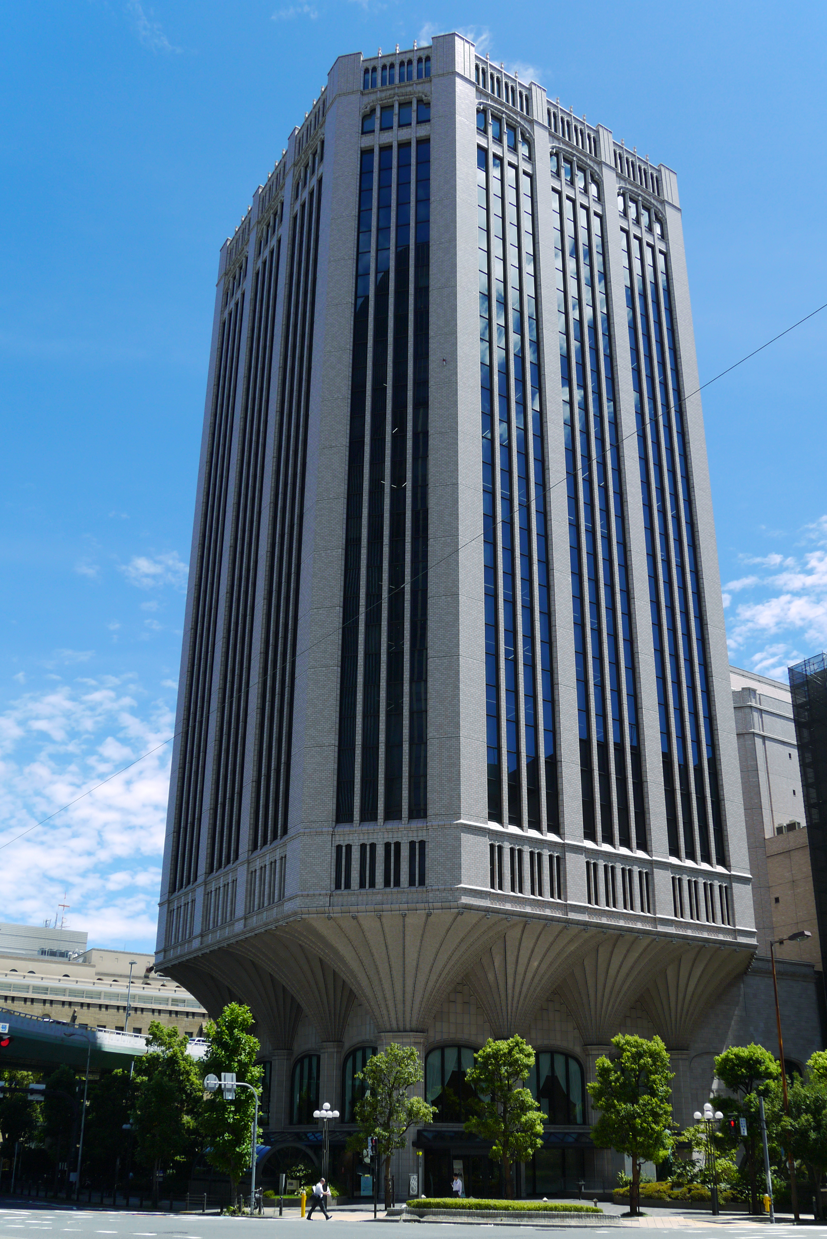 Daido Life Insurance Company Head Office, Osaka, Osaka prefecture, Japan Panasonic Lumix DMC-GF5